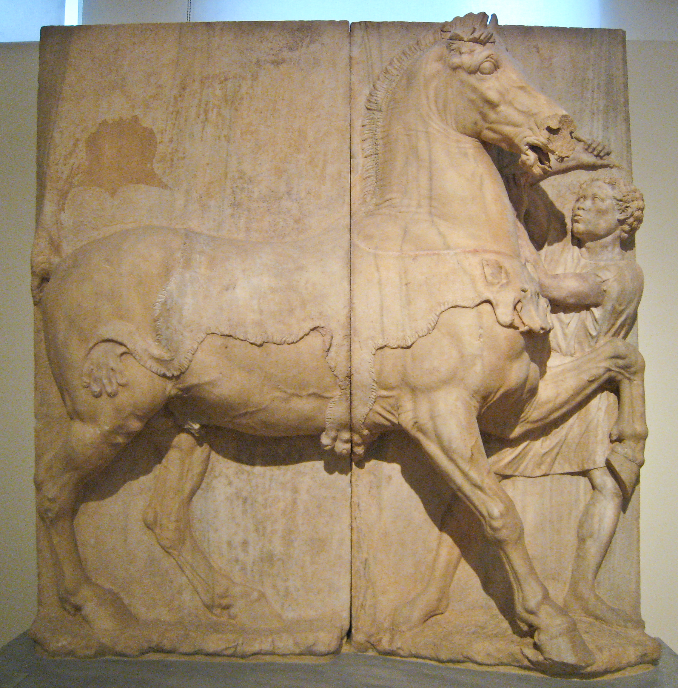 Grave relief, pentelic marble. Athens. Depiction of panther skin wrapped around horse. Late 4th century BC or possibly a copy from 1st century BC.